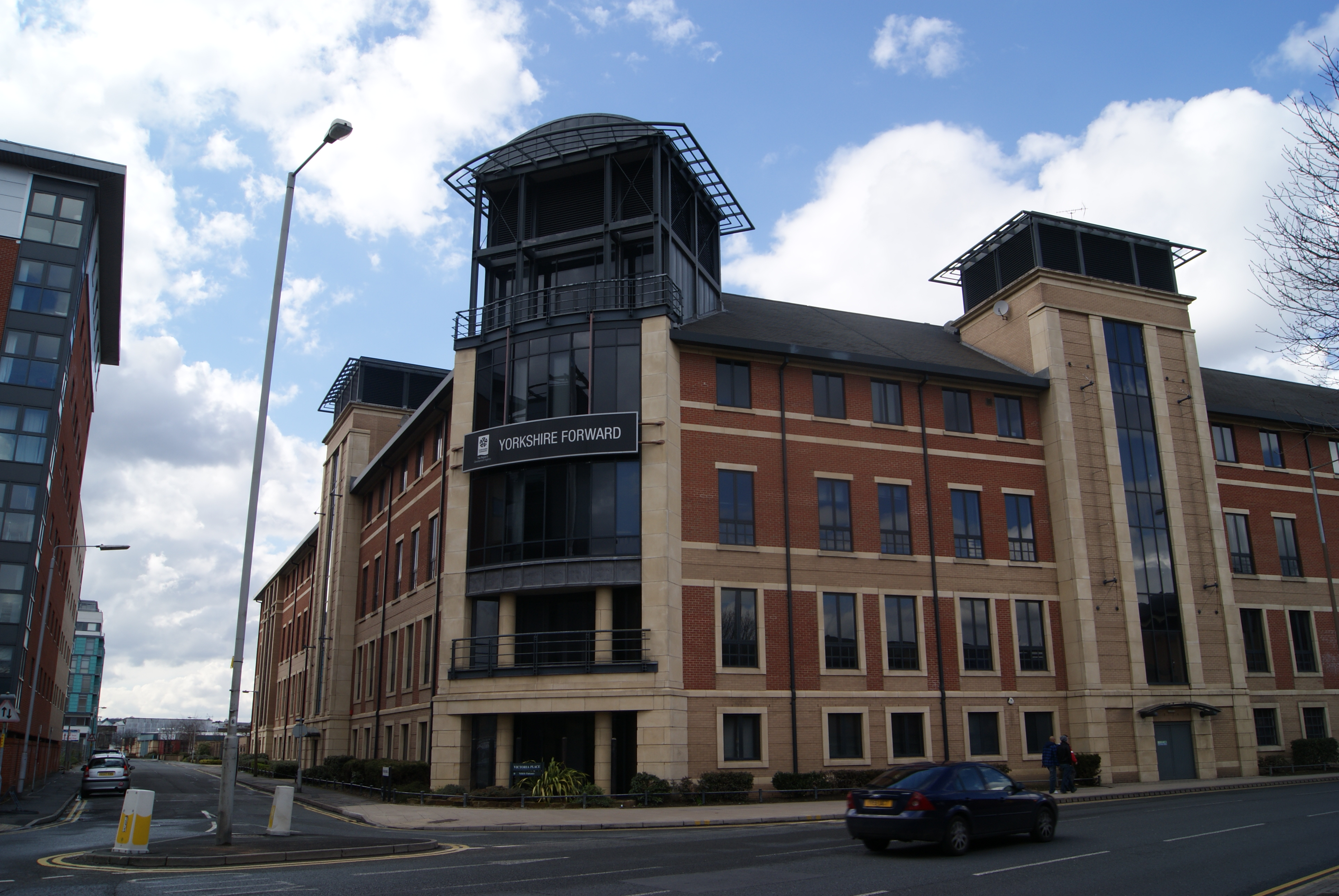 The offices of Yorkshire Forward on Victoria Road (LS11), Leeds, West Yorkshire. Taken on the afternoon of Saturday the 3rd of April 2010.